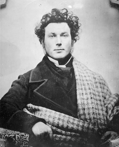 Muir, a schoolmaster wrote "The Maple Leaf Forever" . “Muir’s last school was renamed in his honour shortly after his death. Money raised over the years by public subscription to build a memorial to him was used in 1933 to create a public park. The maple tree outside his Leslieville home is “pampered” by the Toronto parks department because of its association with his song.” — from the Dictionary of Canadian Biography Online Letterpress on paper label laid down on album page below print: ”Alexander Muir at about 25 years of age, wearing his Scotch plaid. From a daguerrotype in possession of his widow”. Creator: Unknown Date: 1855 Identifier: C 2-22a Format: Picture Rights: Public domain Courtesy: Toronto Public Library . More information: (view details and larger image) This image is available from the Toronto Public Library under the reference number C 2-22aThis tag does not indicate the copyright status of the attached work. A normal copyright tag is still required. See Commons:Licensing. English | français | +/−